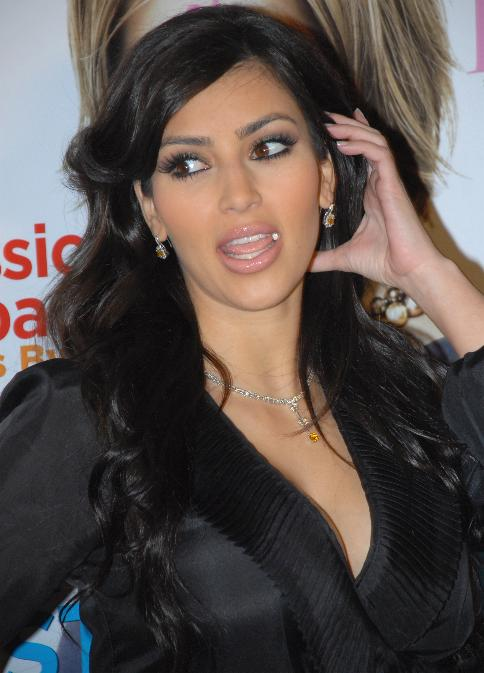 Kim Kardashian at the Seventh Annual Hollywood Life Magazine Awards.